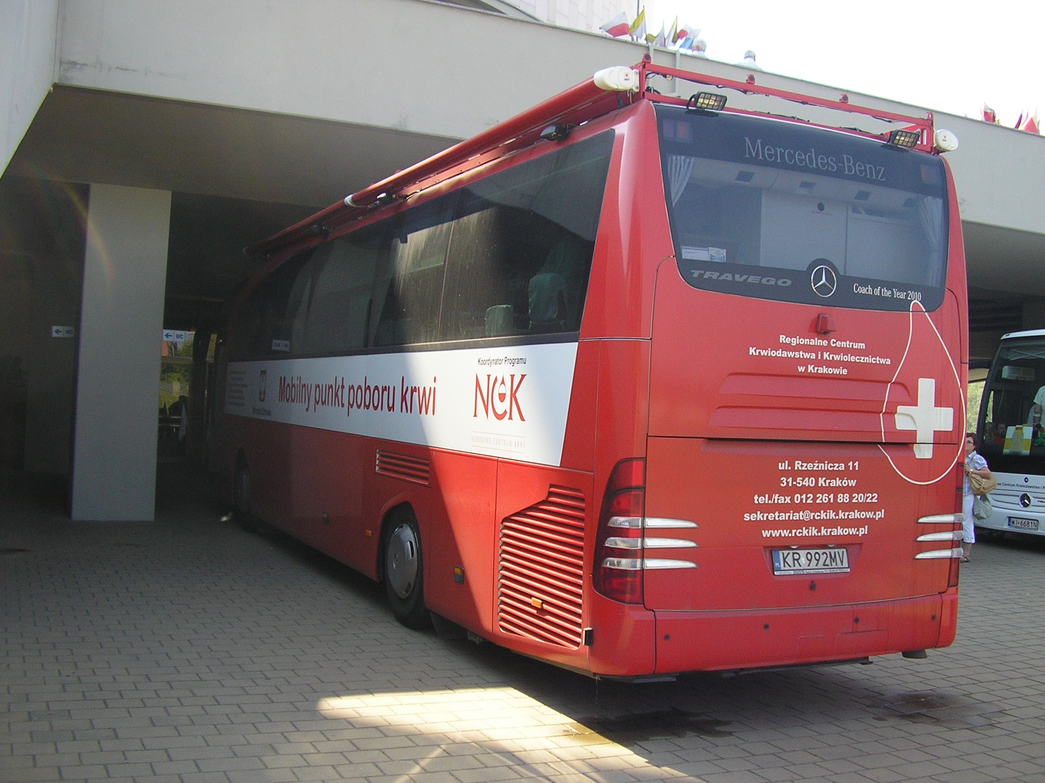 Mercedes-Benz Travego O580-15RHD coach blood donation (reg. KR 992MV) in Kraków, Poland. Built 2010, RCKiK Kraków operator.